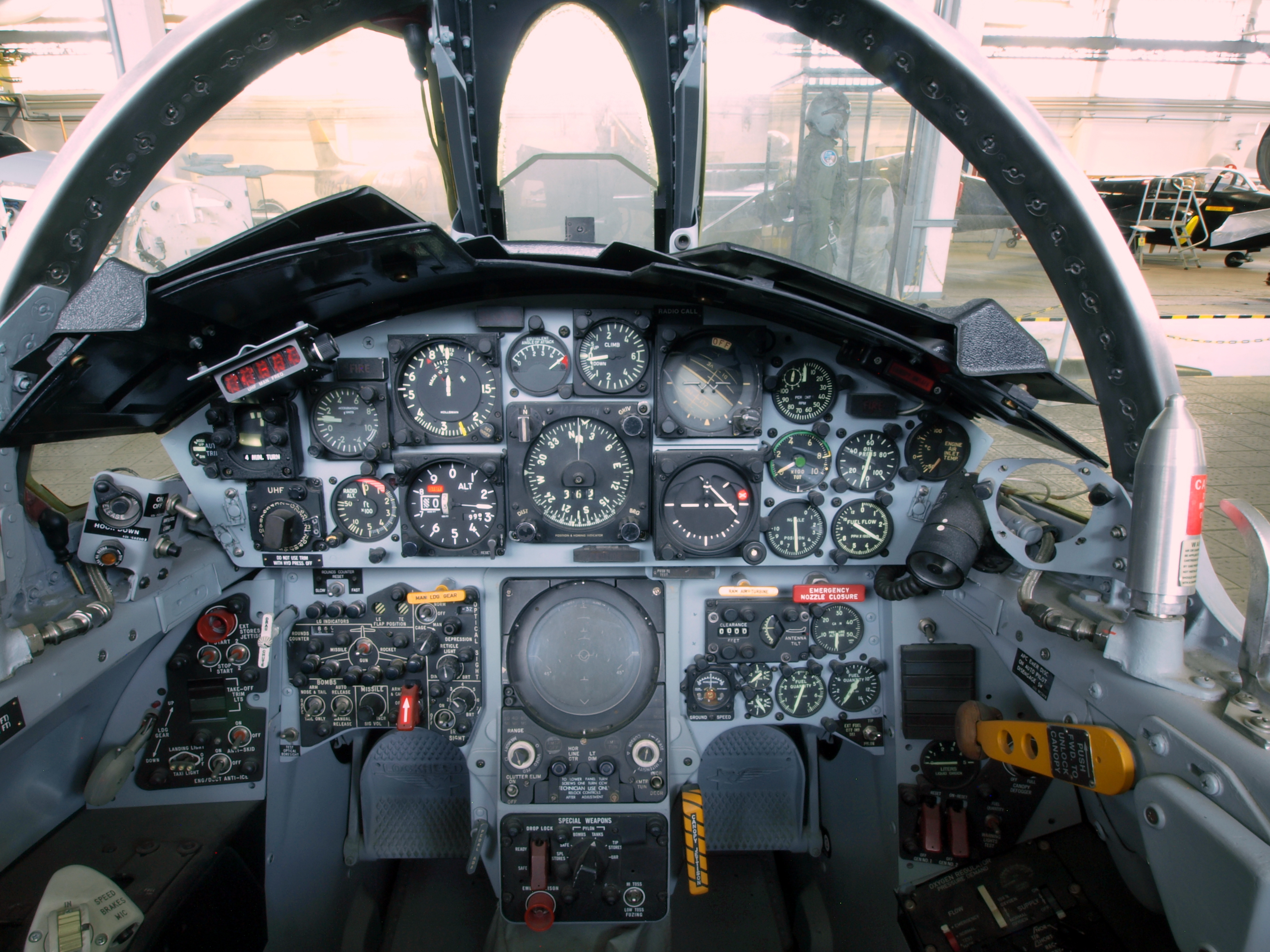 Luftwaffe F-104 Starfighter cockpit 25+29